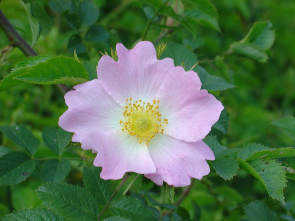 Wild rose